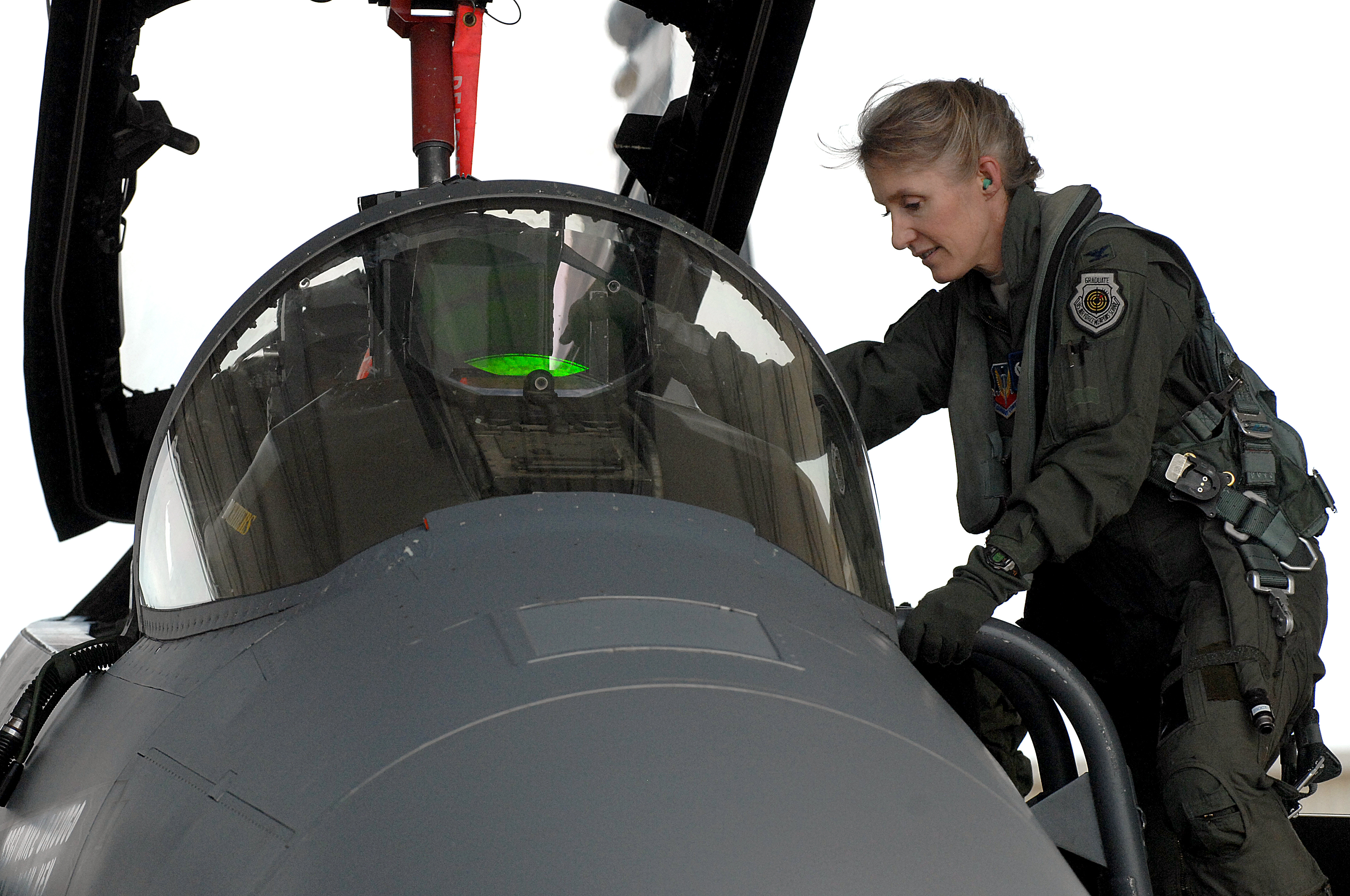 U.S. Air Force Col. Jeannie Leavitt, 4th Fighter Wing commander, climbs into an F-15E Strike Eagle in preparation for exercise RAZOR TALON at Seymour Johnson Air Force Base, N.C., Sept. 6, 2013. The 4th FW regularly participates in RAZOR TALON, a monthly joint-force exercise that combines resources from multiple installations across the East Coast, to interact with and build synergy with other services.